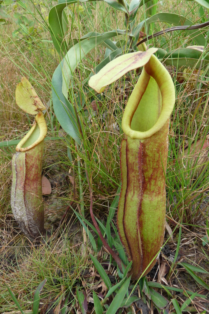 Nepenthes smilesii from Kampot, Cambodia (16 m asl)